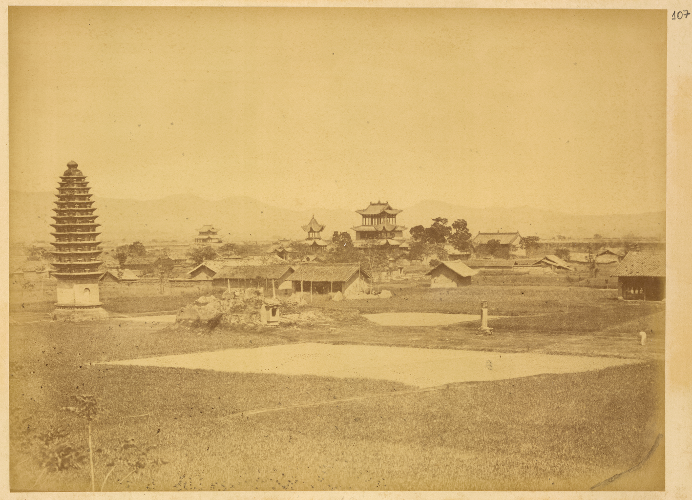 In 1874-75, the Russian government sent a research and trading mission to China to seek out new overland routes to the Chinese market, report on prospects for increased commerce and locations for consulates and factories, and gather information about the Dungan Revolt then raging in parts of western China. Led by Lieutenant Colonel Iulian A. Sosnovskii of the army General Staff, the nine-man mission included a topographer, Captain Matusovskii; a scientific officer, Dr. Pavel Iakovlevich Piasetskii; Chinese and Russian interpreters; three non-commissioned Cossack soldiers; and the mission photographer, Adolf Erazmovich Boiarskii. The mission proceeded from Saint Petersburg to Shanghai via Ulan Bator (Mongolia), Beijing, and Tianjin, and then followed a route along the Yangtze River, along the Great Silk Road through the Hami oasis, to Lake Zaysan, back to Russia. Boiarskii took some 200 photographs, which constitute a unique resource for the study of China in this period. Most of the photographs are included in this album, which later became part of the Thereza Christina Maria Collection assembled by Emperor Pedro II of Brazil and given by him to the National Library of Brazil. Cities and towns; Memory of the World; Mountains; Pagodas; Temples; Towers